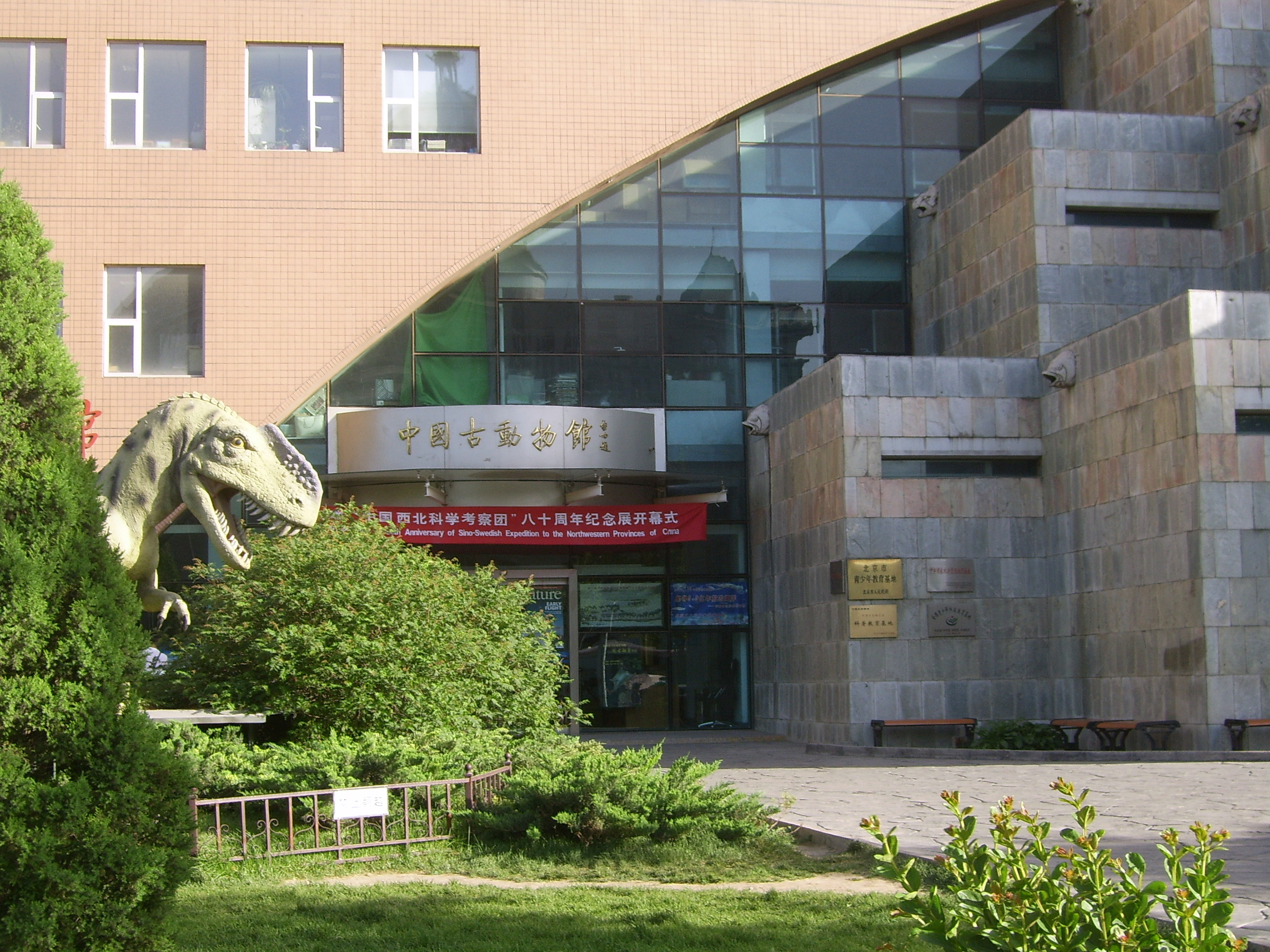 Paleozoological Museum of China